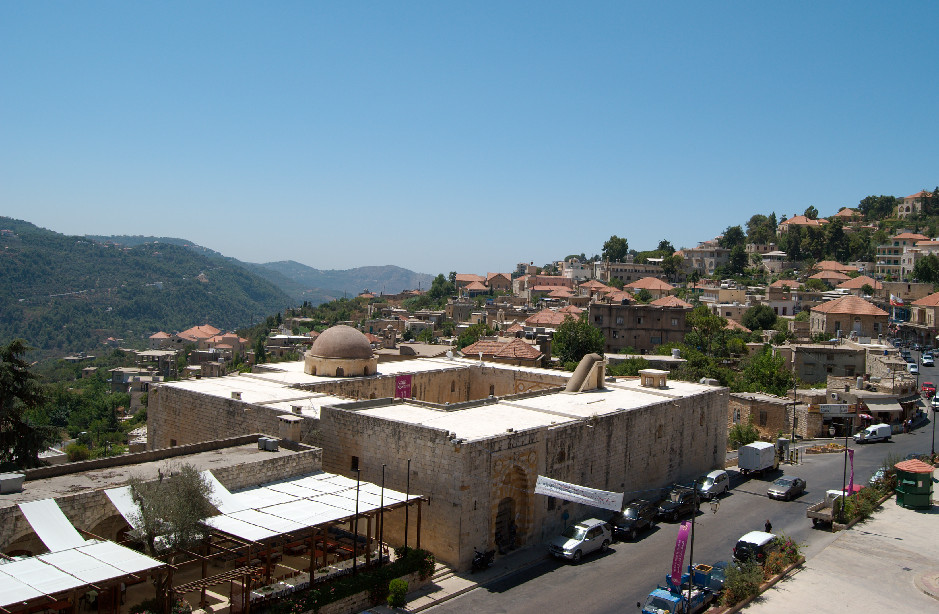 Deir al-Qamar, Lebanon. View from the top of the wax museum